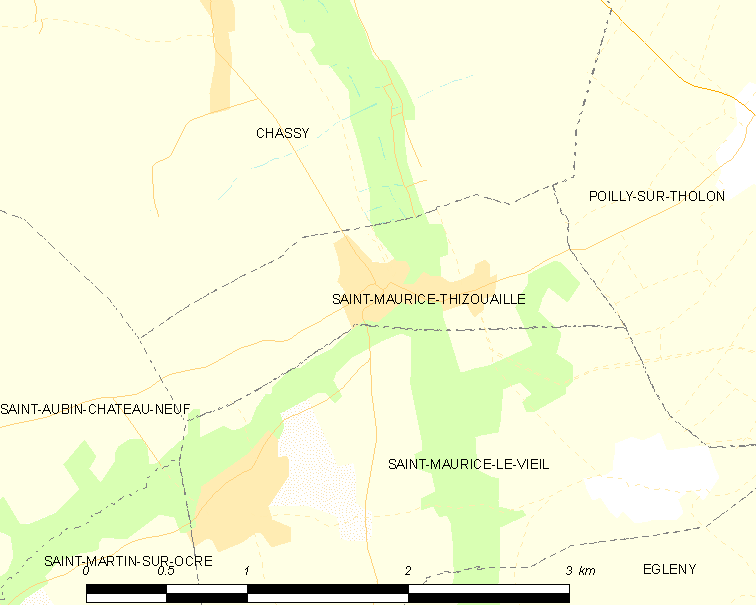 Map of French municipality Saint-Maurice-Thizouaille